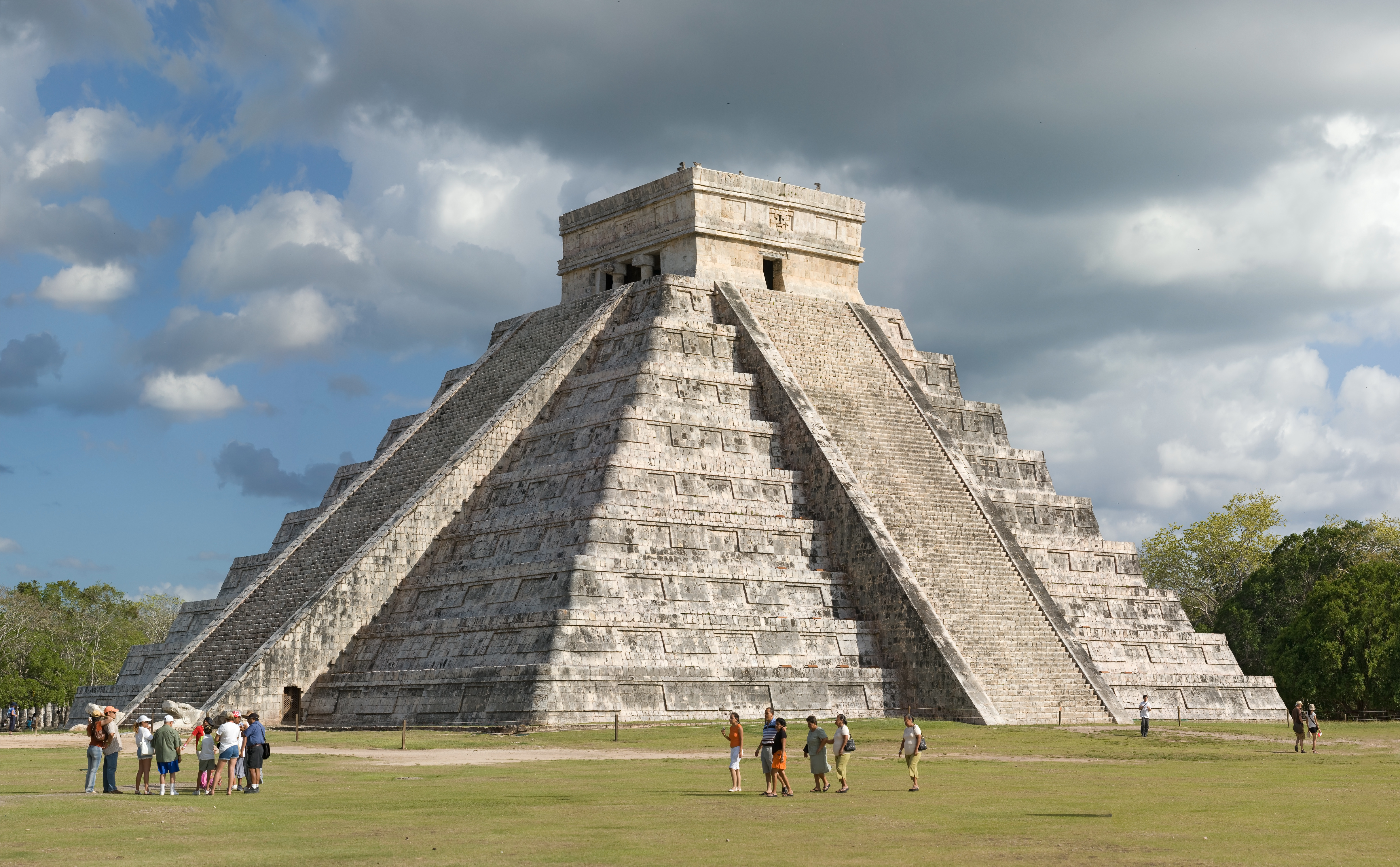 Mesoamerican step-pyramid nicknamed El Castello at Chichen Itza.